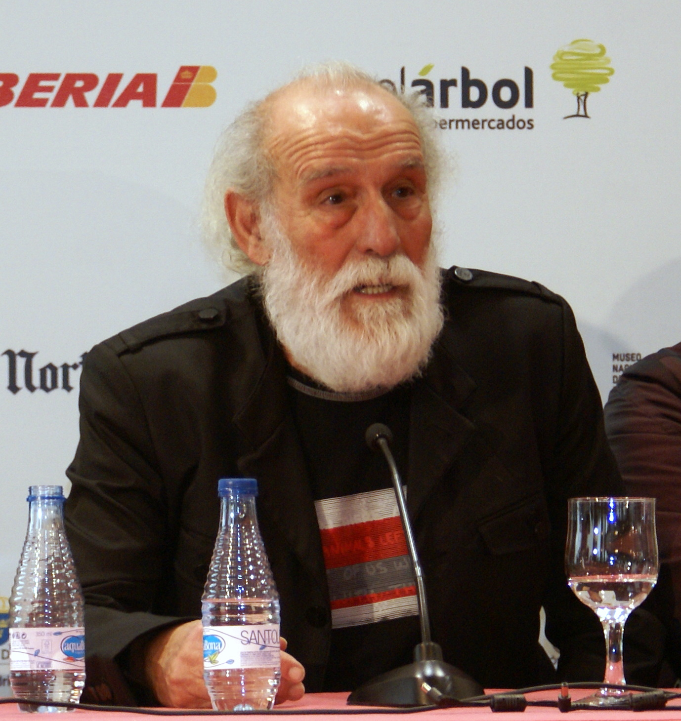 Carlos Álvarez-Novoa, Spanish actor.